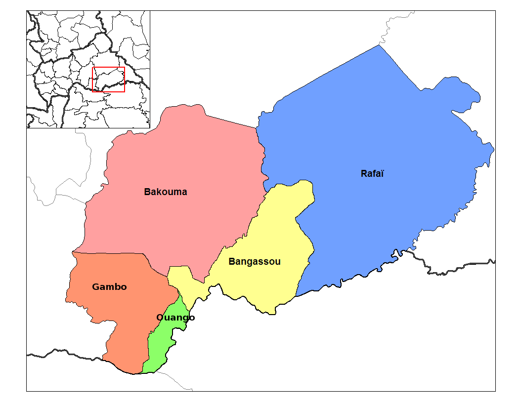 Map of the sub-prefectures of Mbomou prefecture of the Central African Republic. Created by Rarelibra 20:24, 31 August 2006 (UTC) for public domain use, using MapInfo Professional v8.5 and various mapping resources.